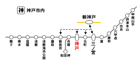 Area of stations in Kobe-shinai. Prepared by User:Highexpress.